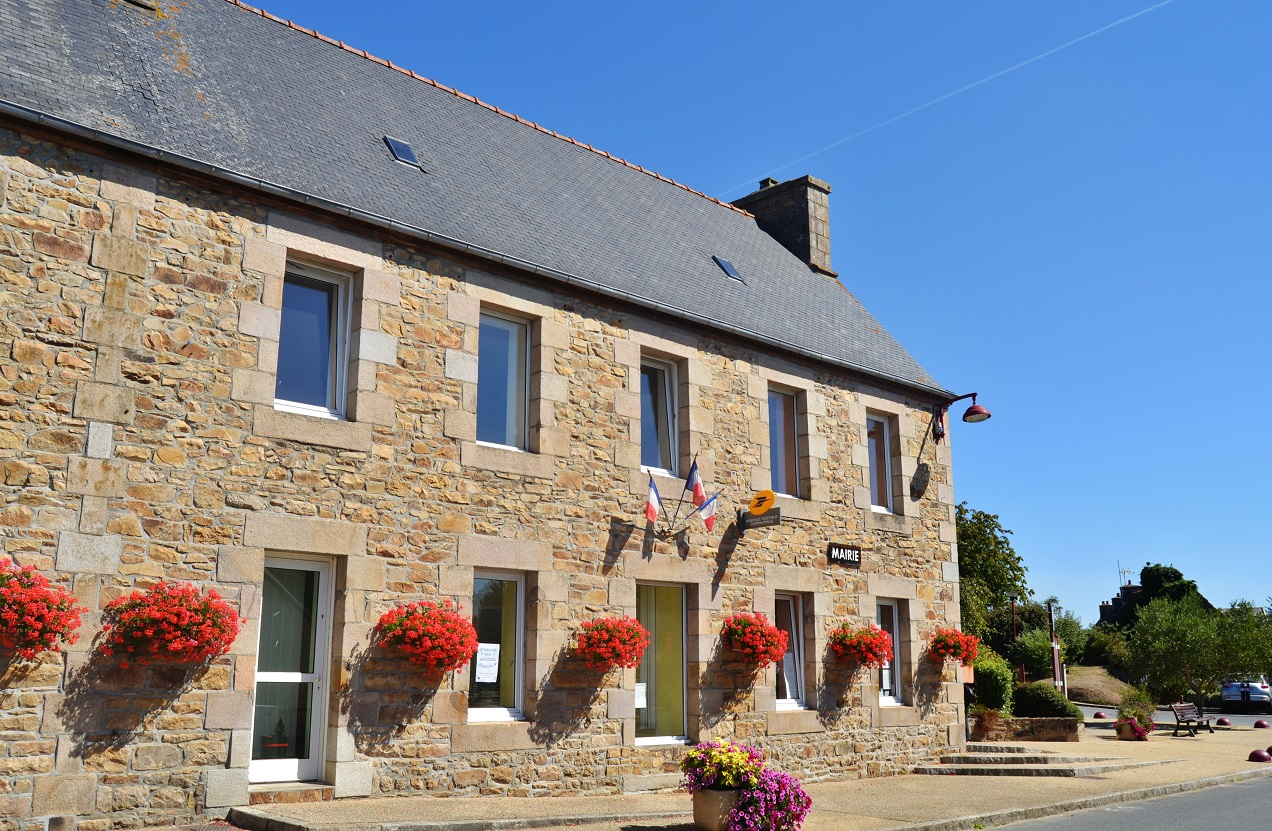 La Mairie